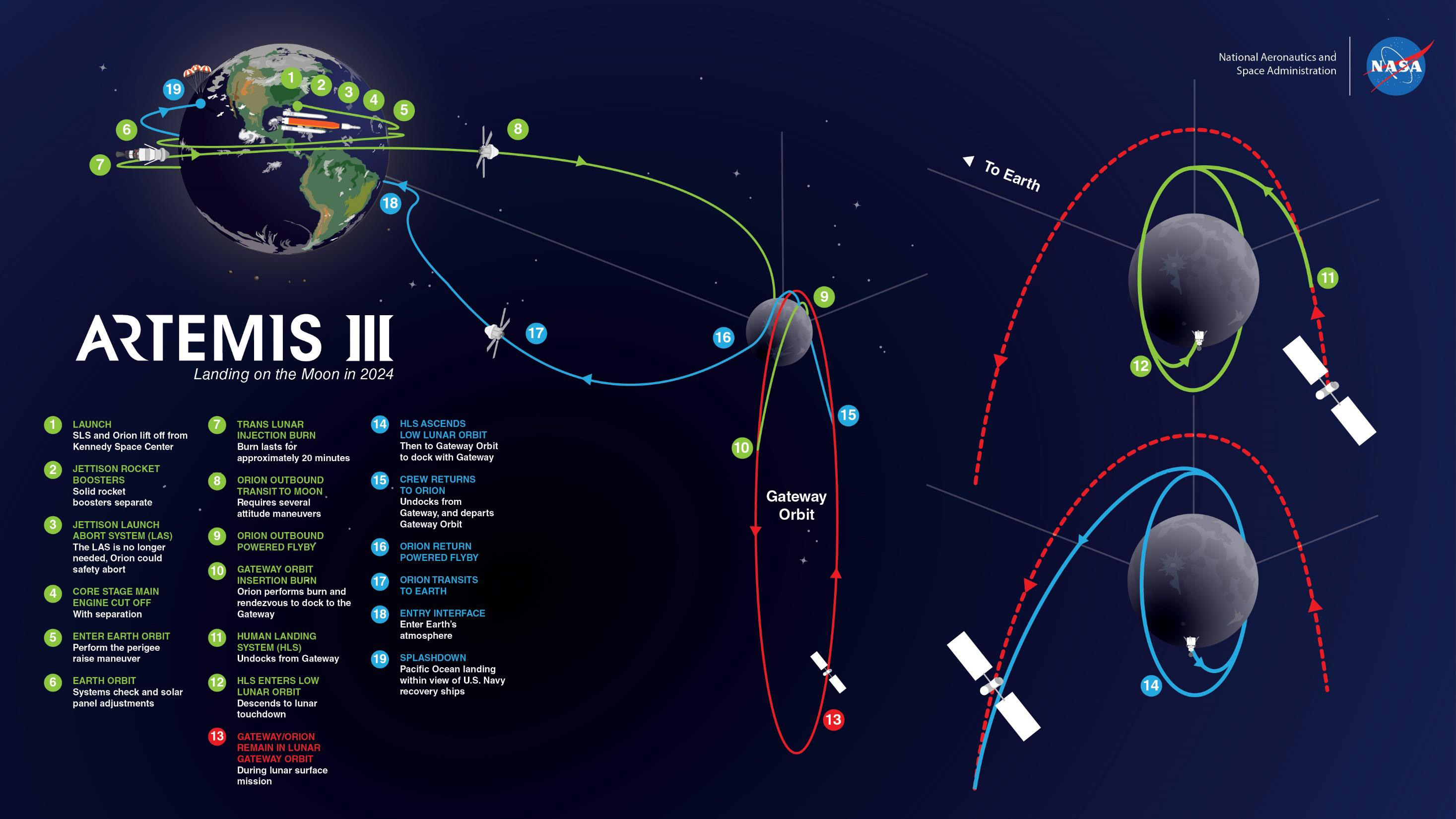 Artemis 3 — Landing on the Moon in 2024.